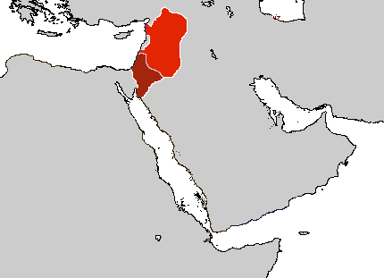 Map of the Ayyubid dynasty in 1257. The area shaded in bright red was under the control of Ayyubid Sultan an-Nasir Yusuf, while the darker shade was under the nominal control of Ayyubid Emir al-Mughith Umar of Karak